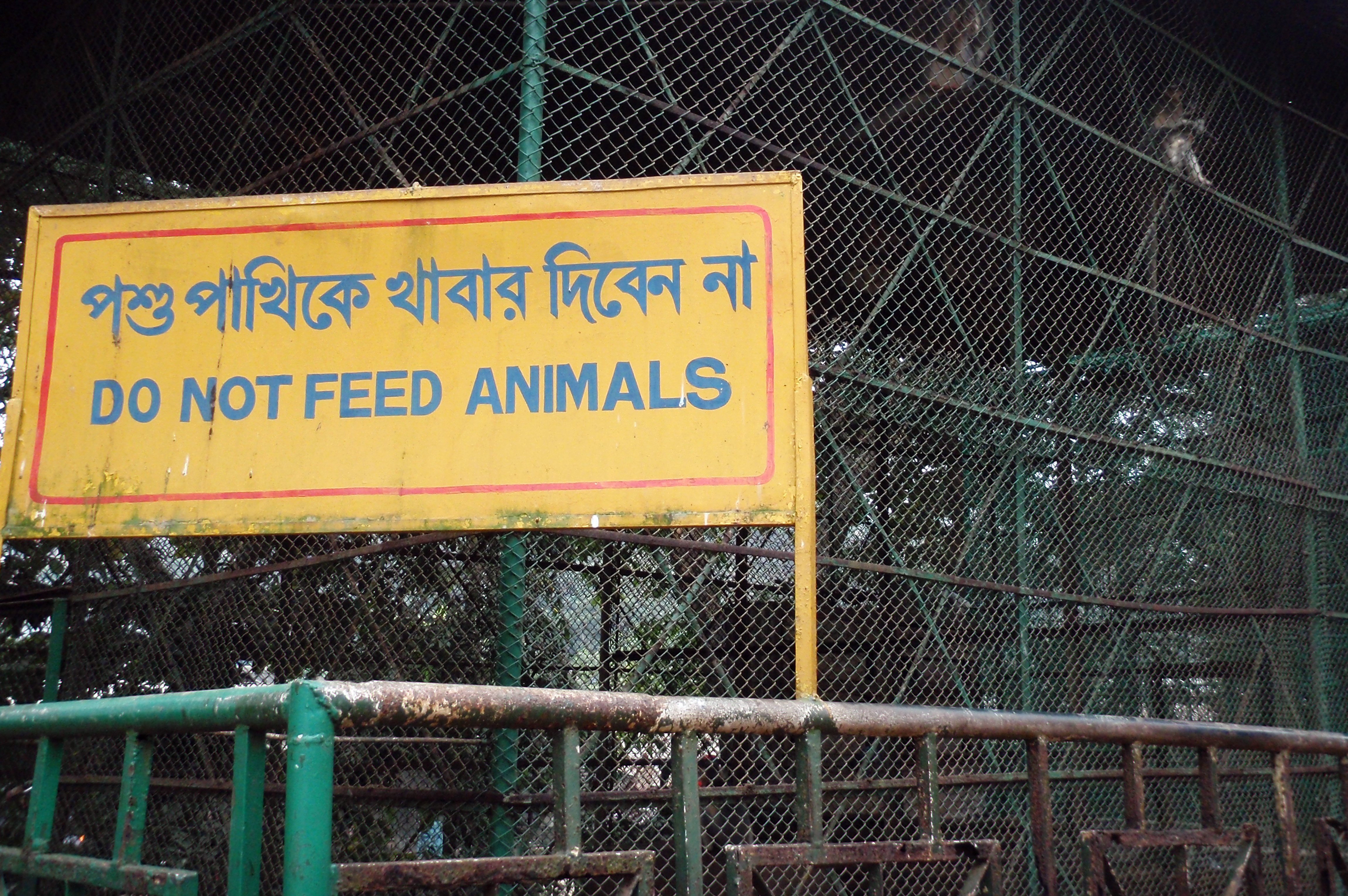 Captive monkey at Chittagong Zoo